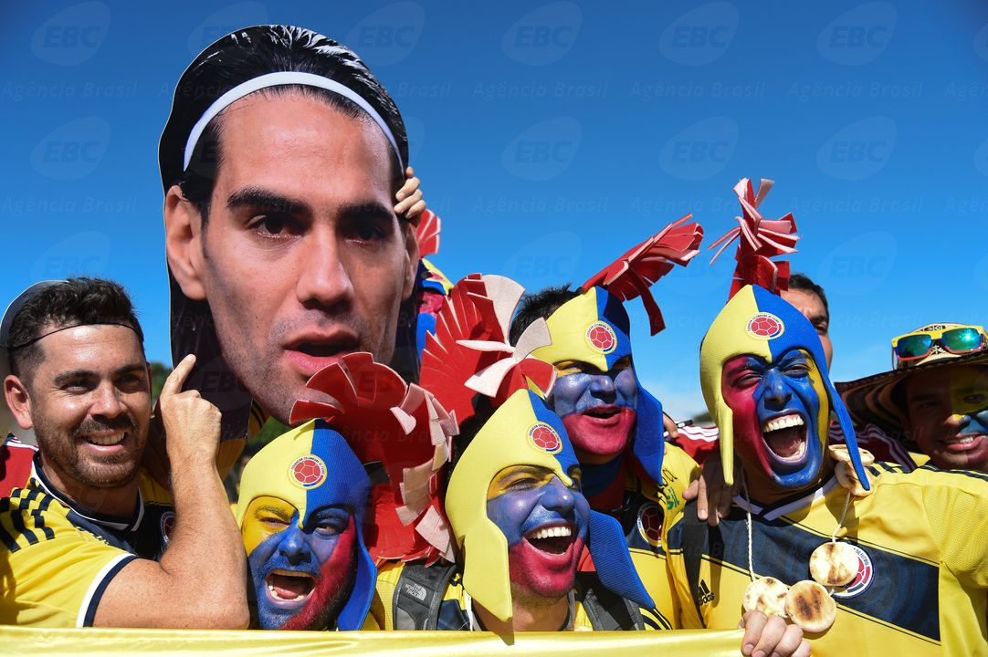 Colombia fan.